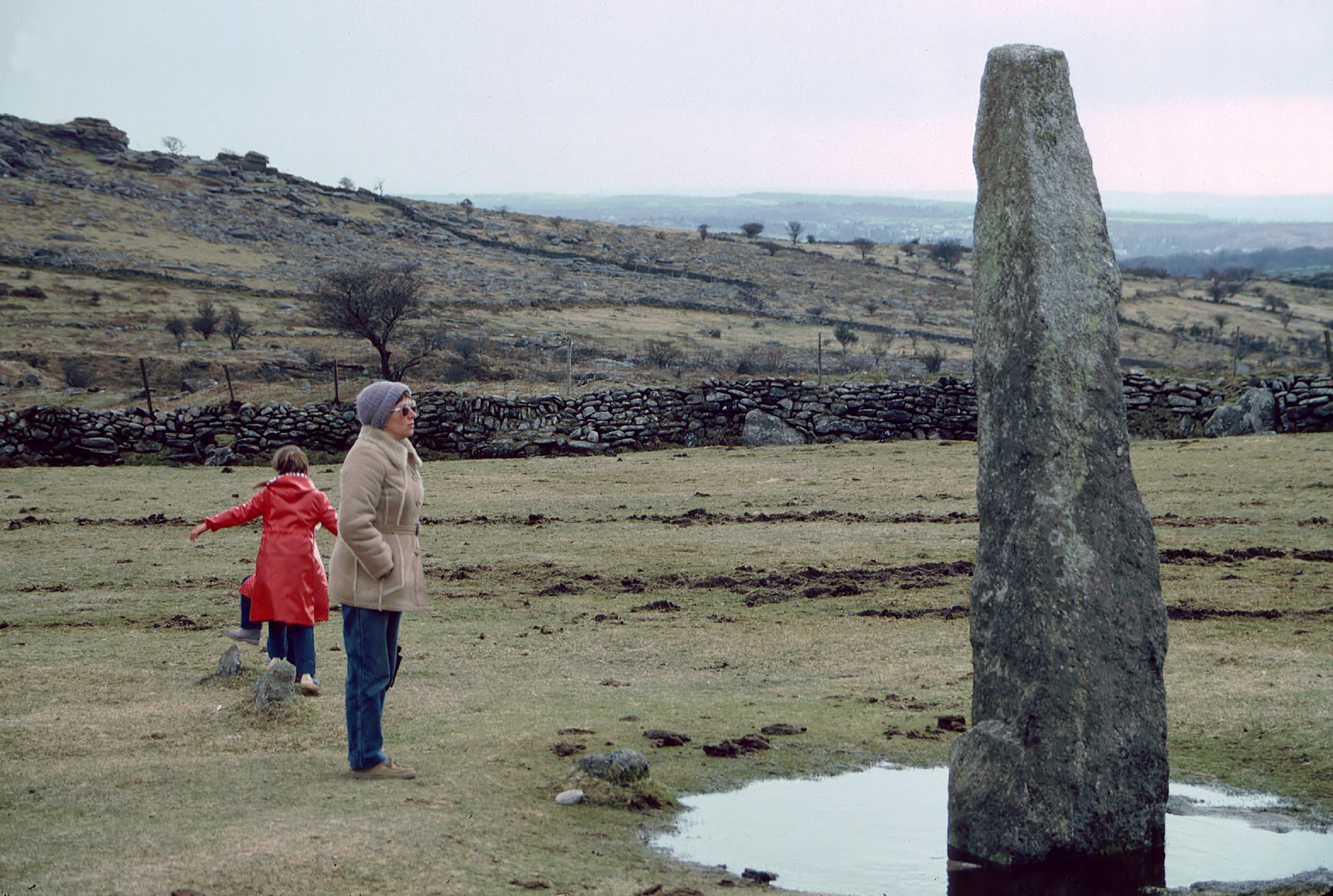 Menhir in the Merrivale area of Dartmoor, Devon/UK